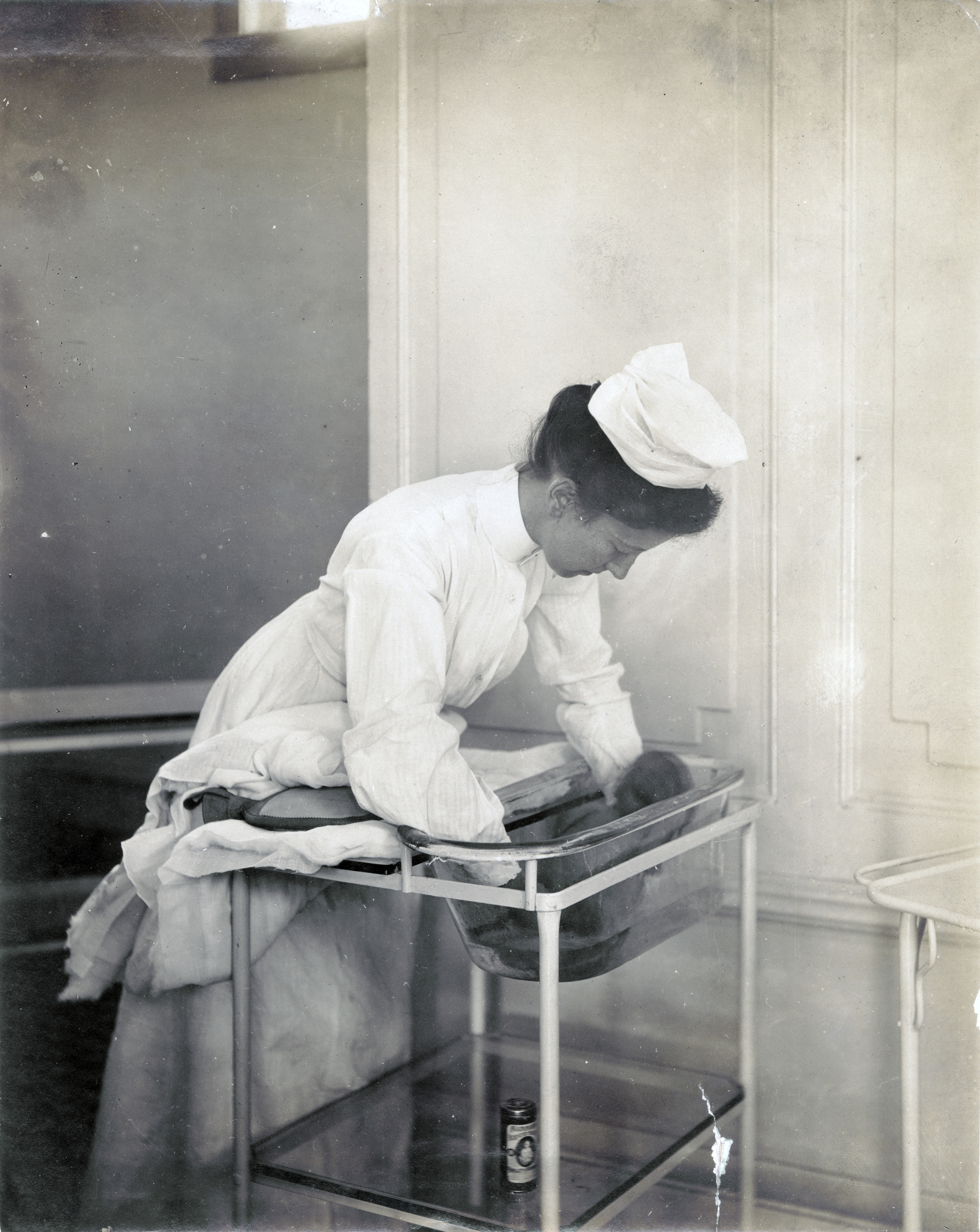 Title: "The Daily Bath." (Nurse bathing an infant in the Baby Incubator exhibit on the Pike at the 1904 World's Fair).